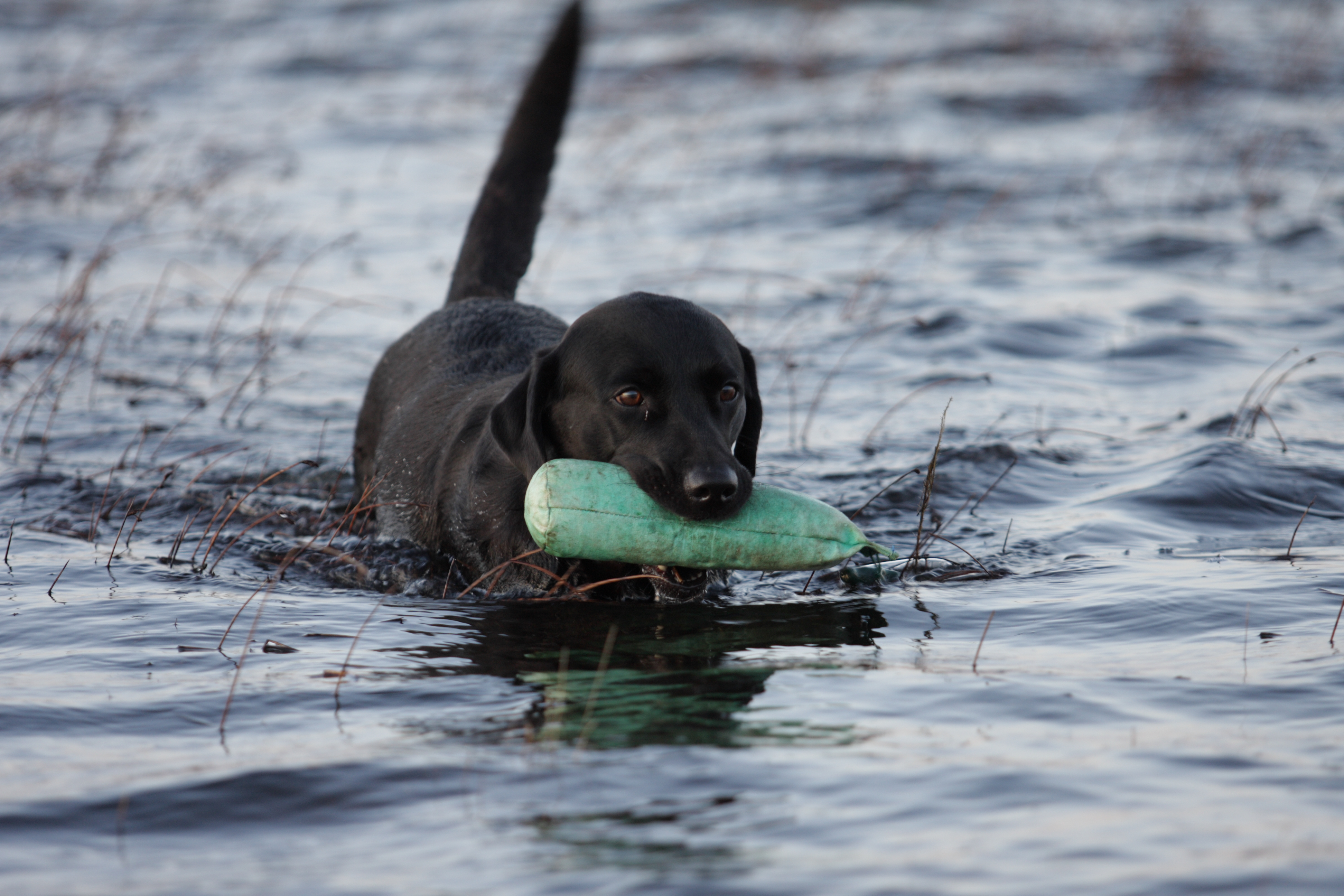 Black Labrador Retriever fetching a training dummy in water